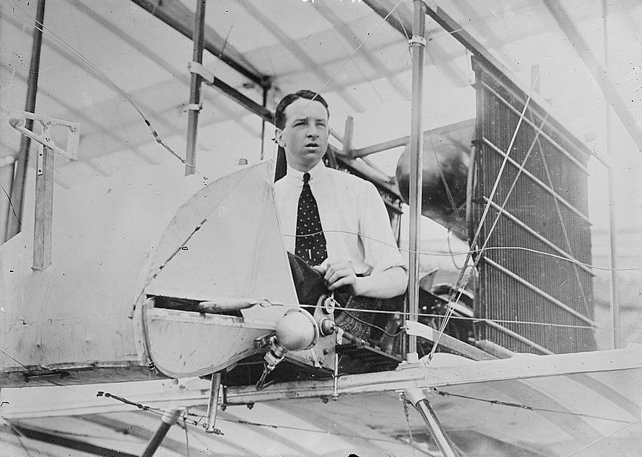 Bain News Service,, publisher. Tom Sopwith between 1910 and 1915 1 negative : glass ; 5 x 7 in. or smaller. Notes: Title from unverified data provided by the Bain News Service on the negatives or caption cards. Forms part of: George Grantham Bain Collection (Library of Congress). Subjects: Air pilots Format: Glass negatives. Repository: Library of Congress, Prints and Photographs Division, Washington, D.C. 20540 USA, General information about the Bain Collection is available at Persistent URL: Call Number: LC-B2- 2203-16